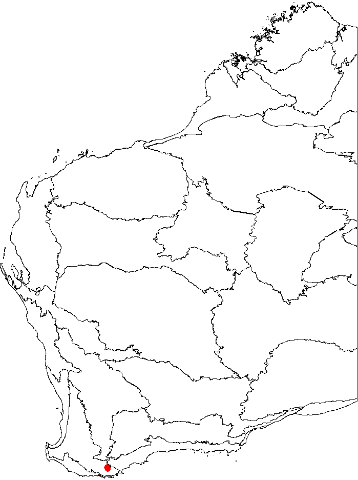 This is a map of Western Australia, showing the distribution of Banksia sphaerocarpa var. latifolia superimposed on a background of the IBRA 6.1 biogeographic regions.